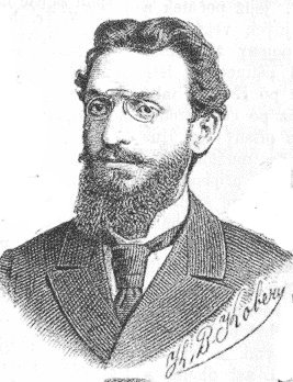 Portrait of Karel Bohuš Kober, Czech writer, translator and chess player.